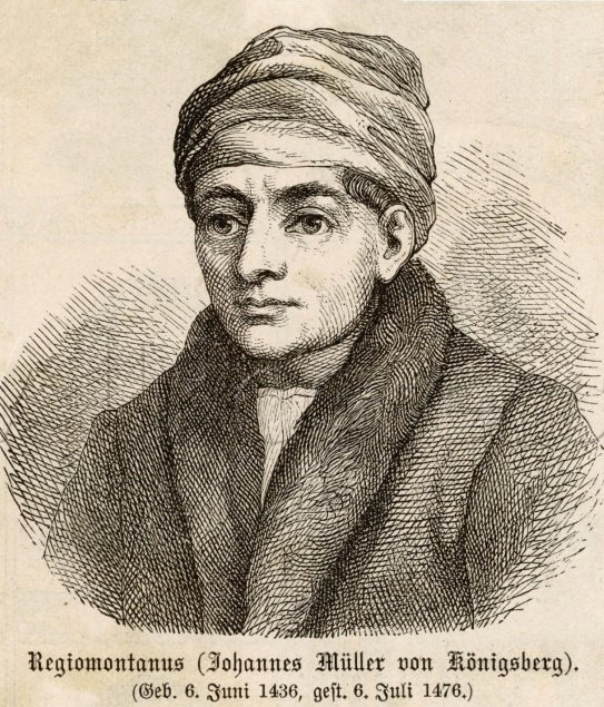 Johannes Müller von Königsberg (6 June 1436 – 6 July 1476)